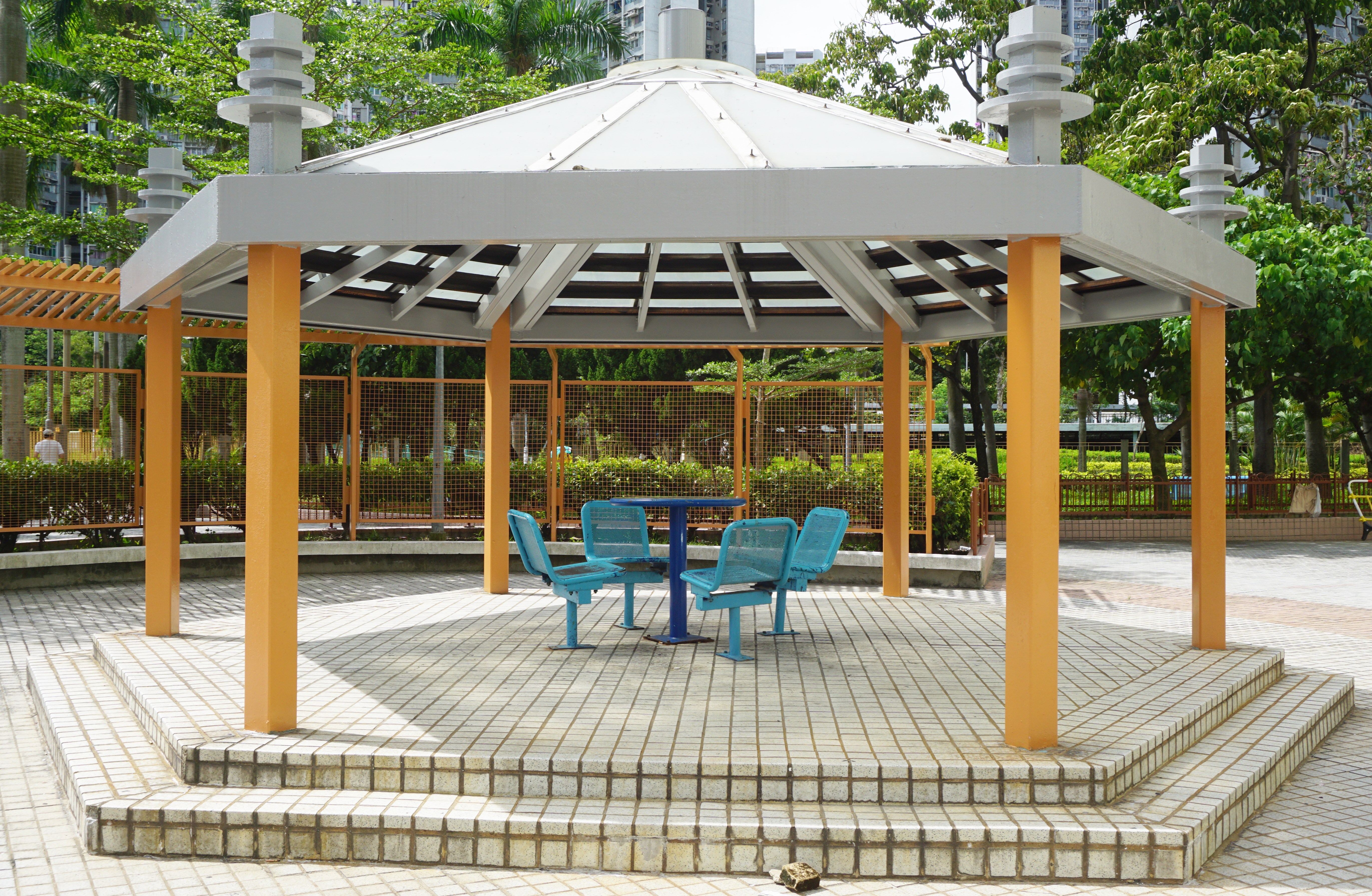 Tai Hing Estate in Tuen Mun, Hong Kong.